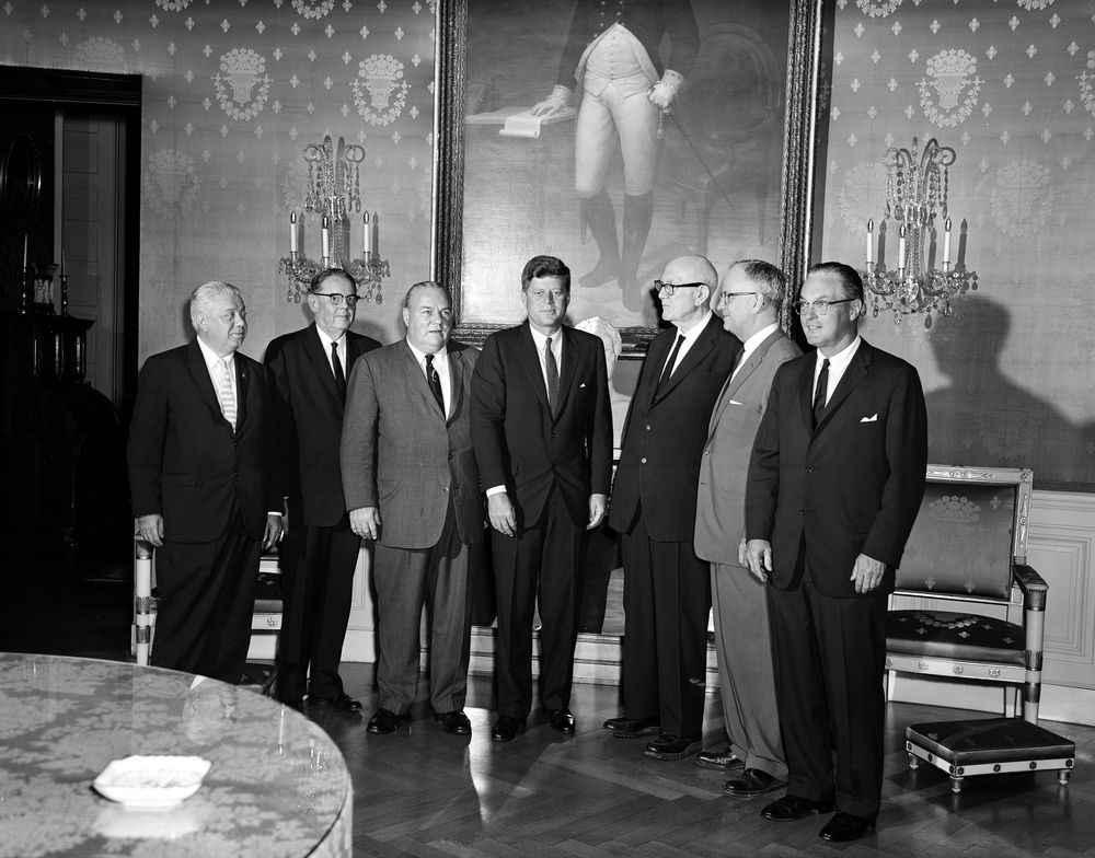 Representative Robert B. Chiperfield (2nd from left) attends Congressional coffee hour with President John F. Kennedy (center) and other representatives on 14 September 1961.